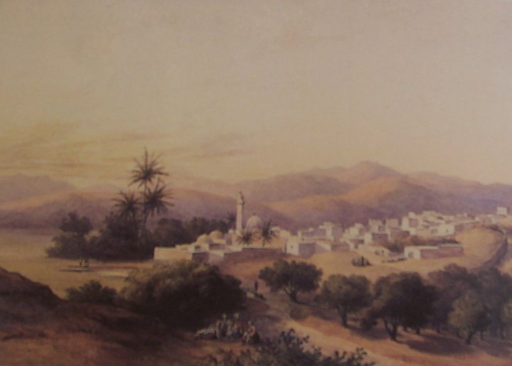 Jenin in 1880s, painted by Dutch traveler